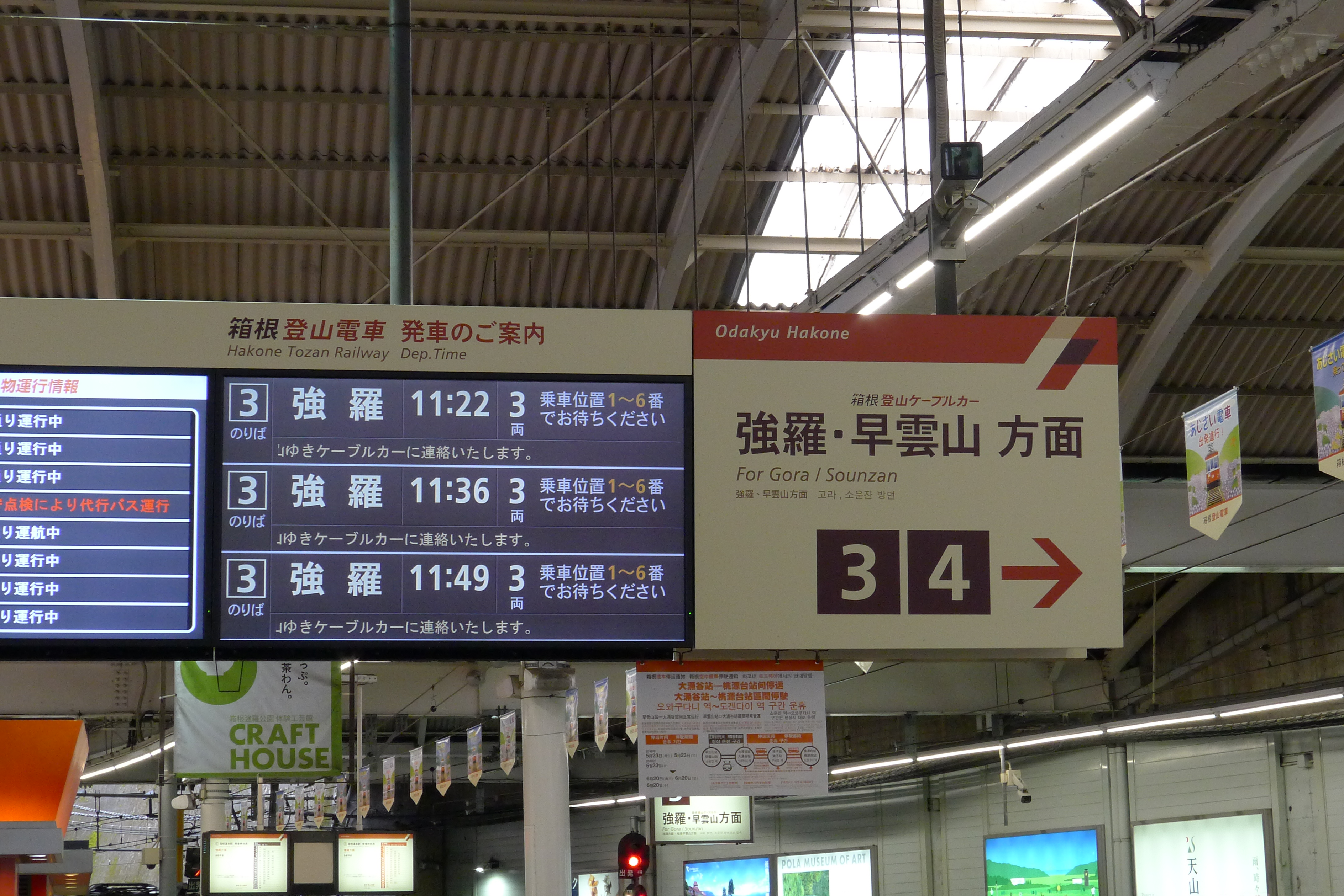 Sign at Hakone-Yumoto Station (For Gora and Sounzan) 中文（台灣）: 箱根湯本車站月台告示：往強羅、早雲山方向 Panasonic Lumix DMC-LX5